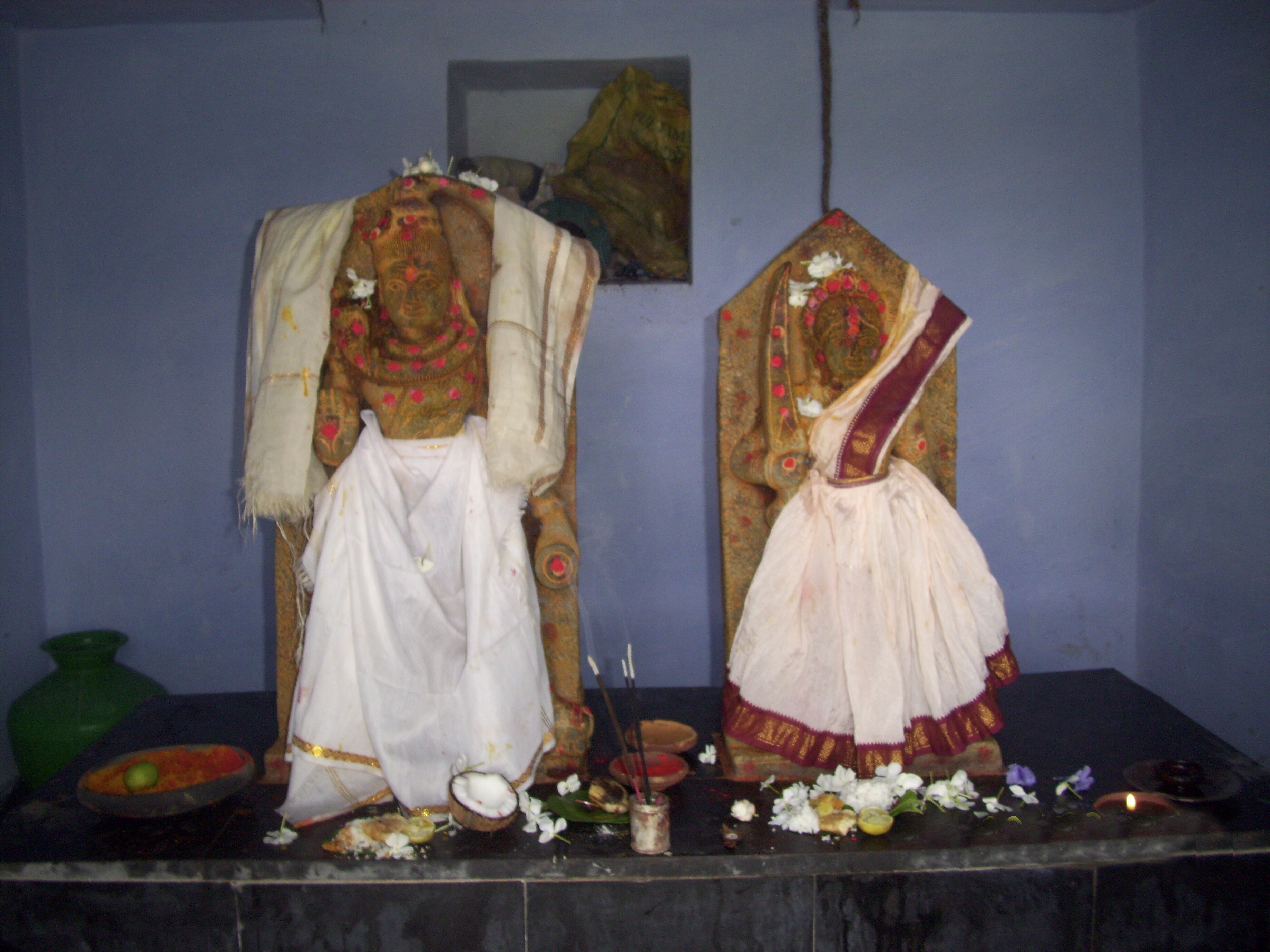 Rama Krishna, by Reddy Sangyam